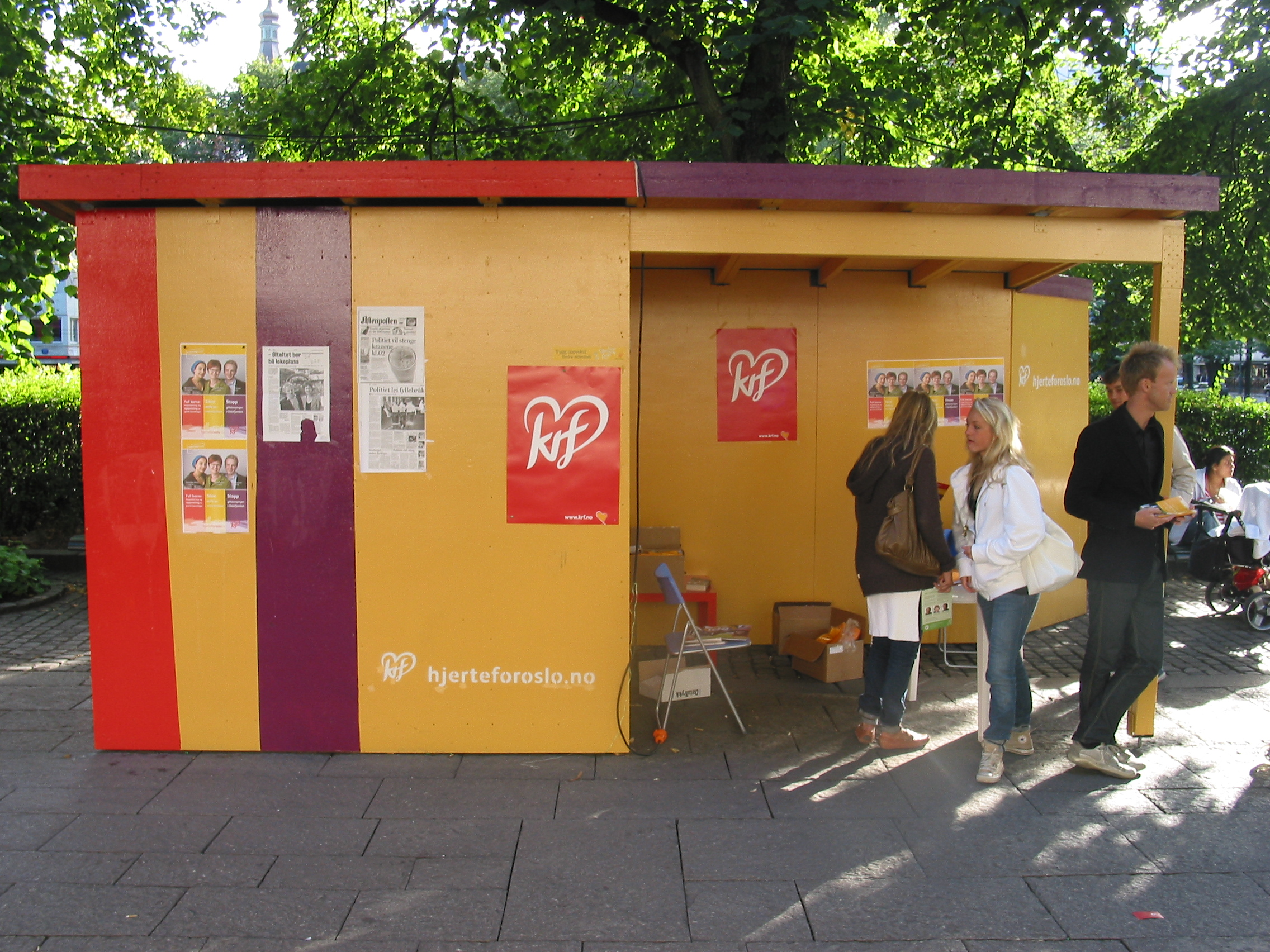 Booth of the Christian Democratic Party of Norway (Kristelig Folkeparti) during the campaign before the Norwegian local elections, 2007. Karl Johan's street, Oslo, July 2007.